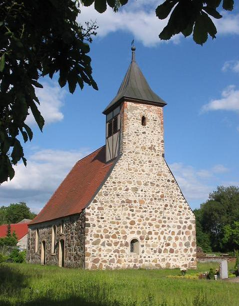 Church Gömnigk, built probably in 14th century. The village Gömnigk is an incorporated part of the town Brück in Brandenburg, Germany.